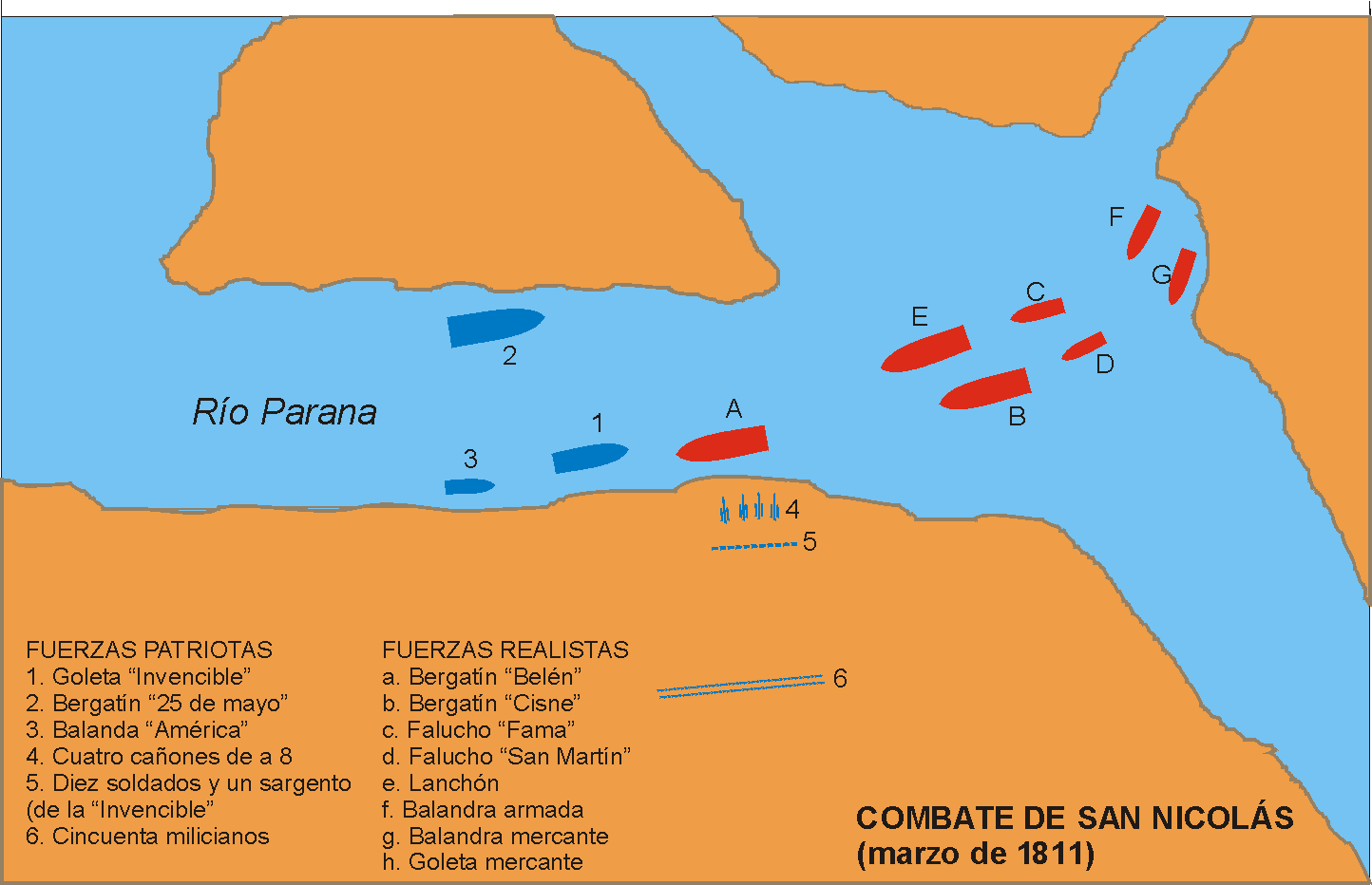 Naval Battle between Royalist Fleet (Montevideo) and Buenos Aires´fleet (Parana river, 1811)